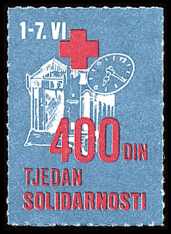 Charity seal of Yugoslavia, 1989, Solidarity week, 400 dinars